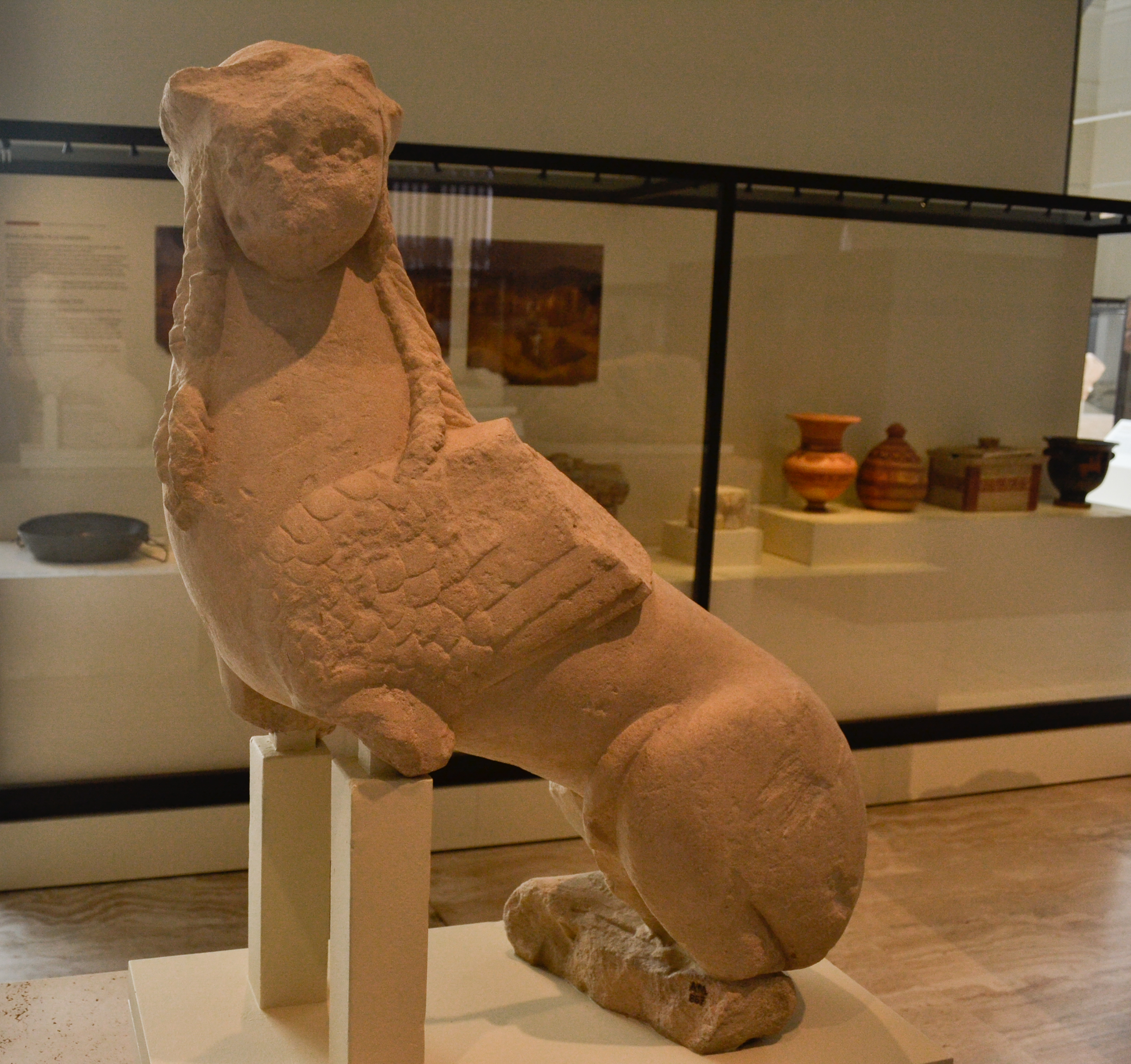 Iberian sculpture.